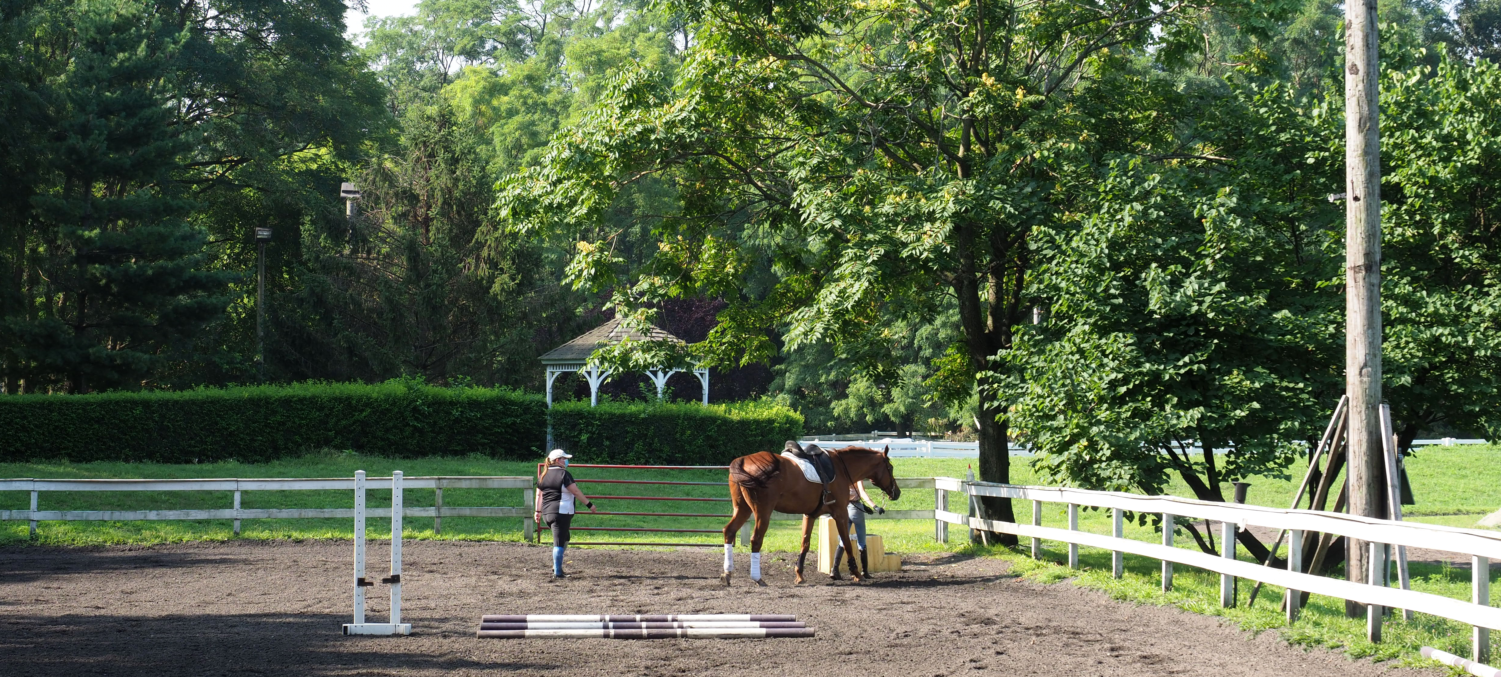 Riverdale Stables in Van Cortlandt Park, Bronx, NY